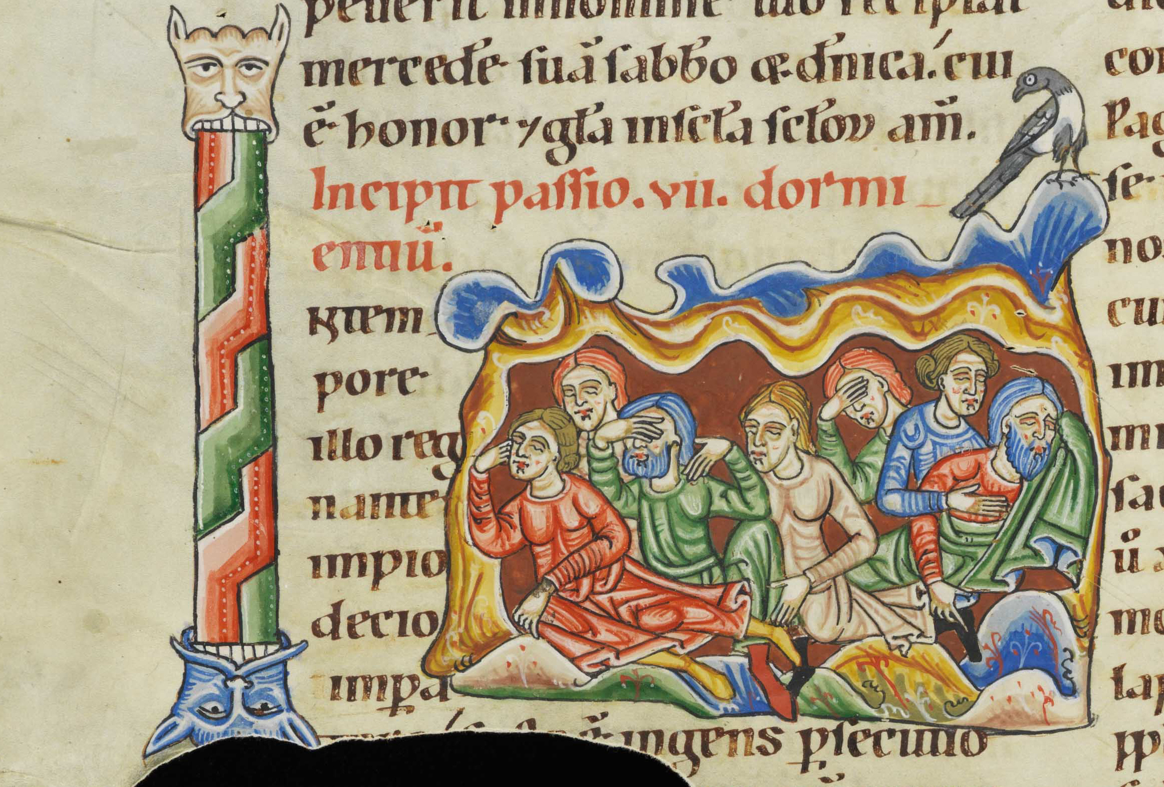 Illumination from the Passionary of Weissenau (Weißenauer Passionale); Fondation Bodmer, Coligny, Switzerland; Cod. Bodmer 127, fol. 125v